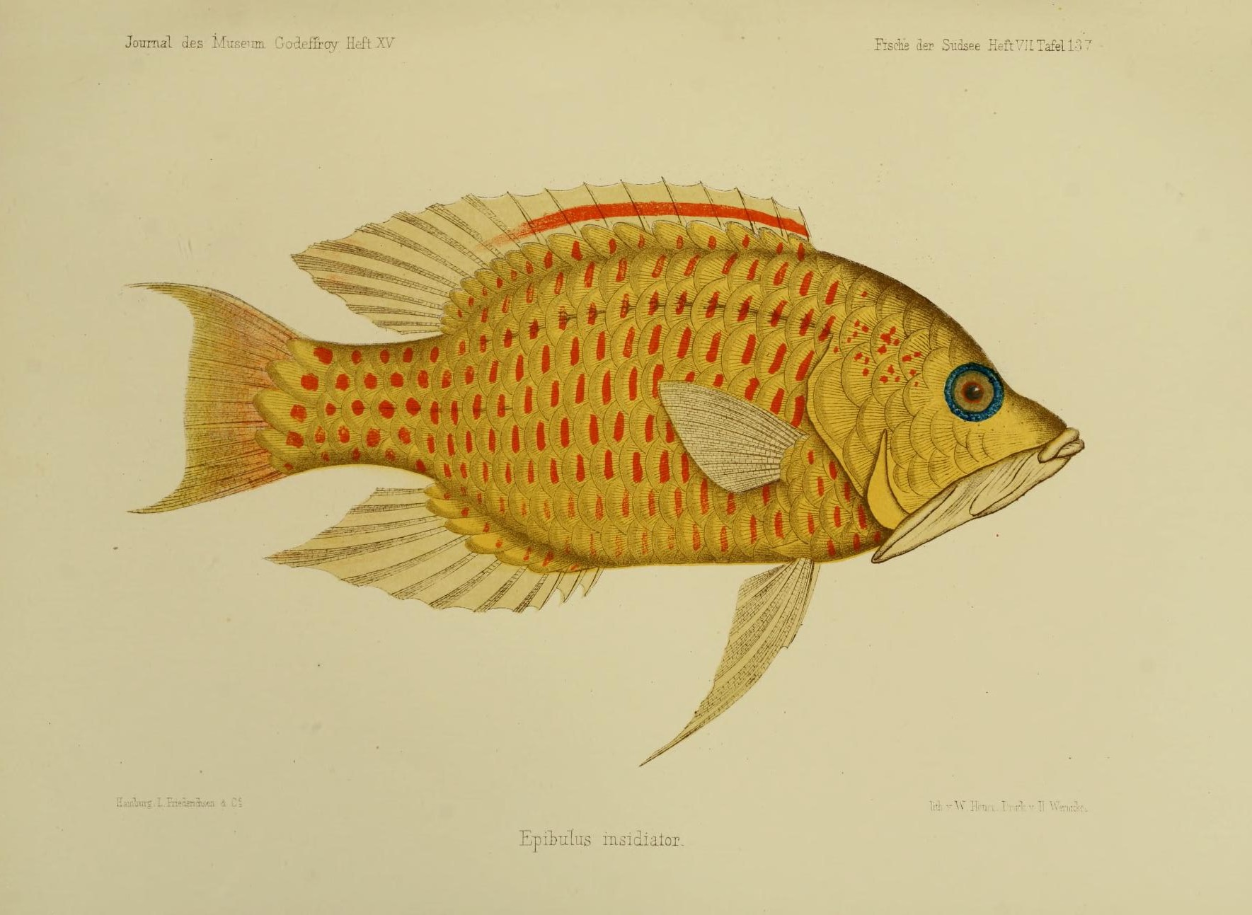 As file